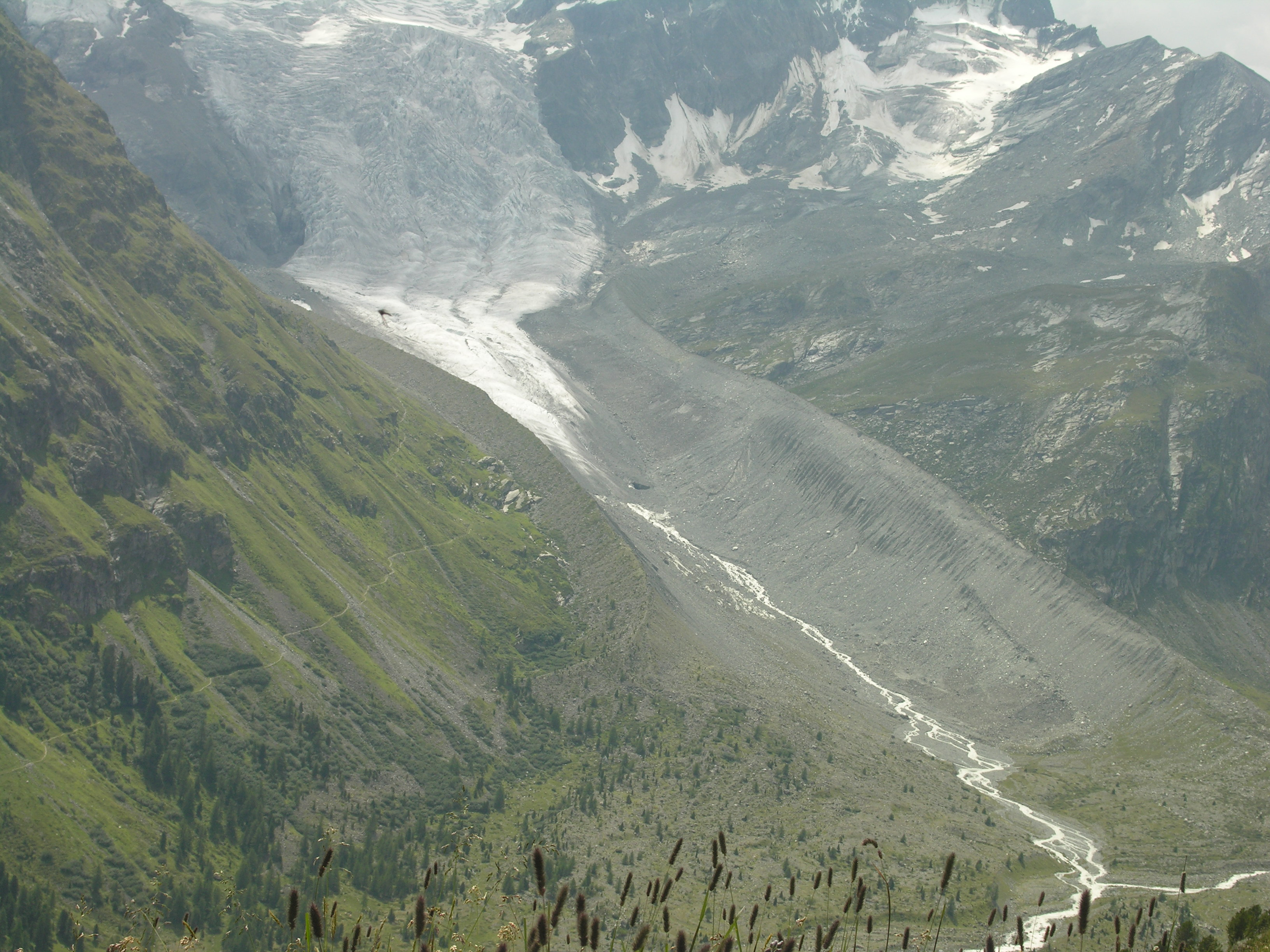 Moraines in Upper Engadin, as seen from Fuorcla Surlej.